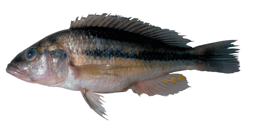 Haplochromis vonlinnei, quiescent male.